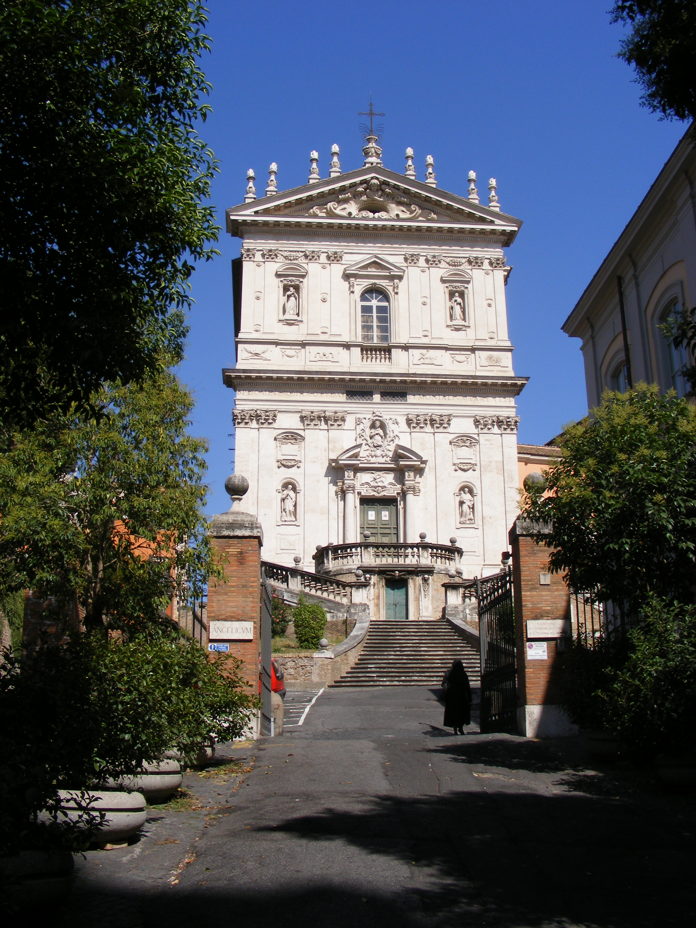 Santi Domenico e Sisto of the Pontifical University of St. Thomas Aquinas (Angelicum), Rome.